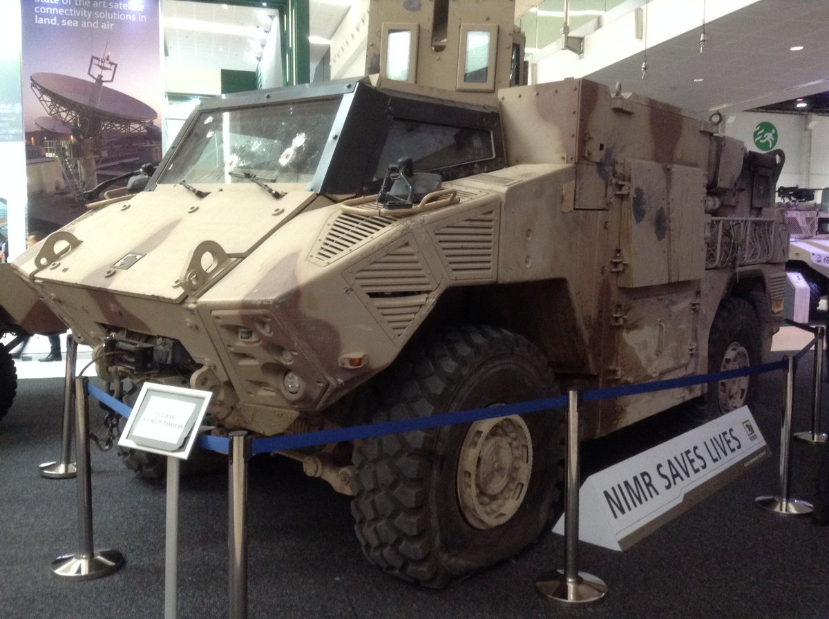 A battle tested NIMR JAIS restored from a combat zone in Yemen on display in IDEX 2017, Abu Dhabi.